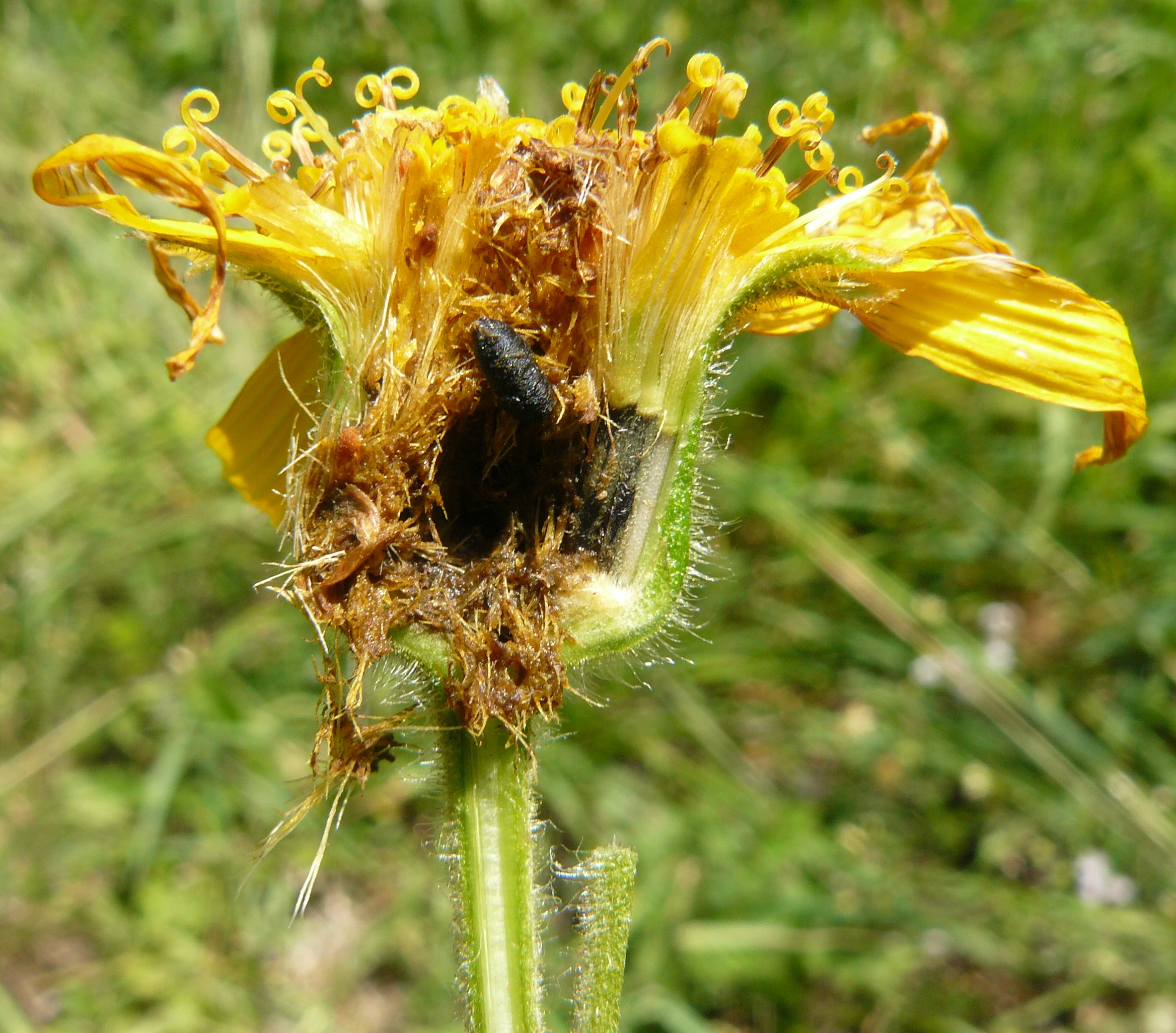 Arnica montana with Tephritis arnicae in black pupa